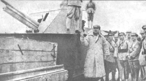 Feng Yuxiang was in front of the iron armored vehicle captured by the Fengtian clique